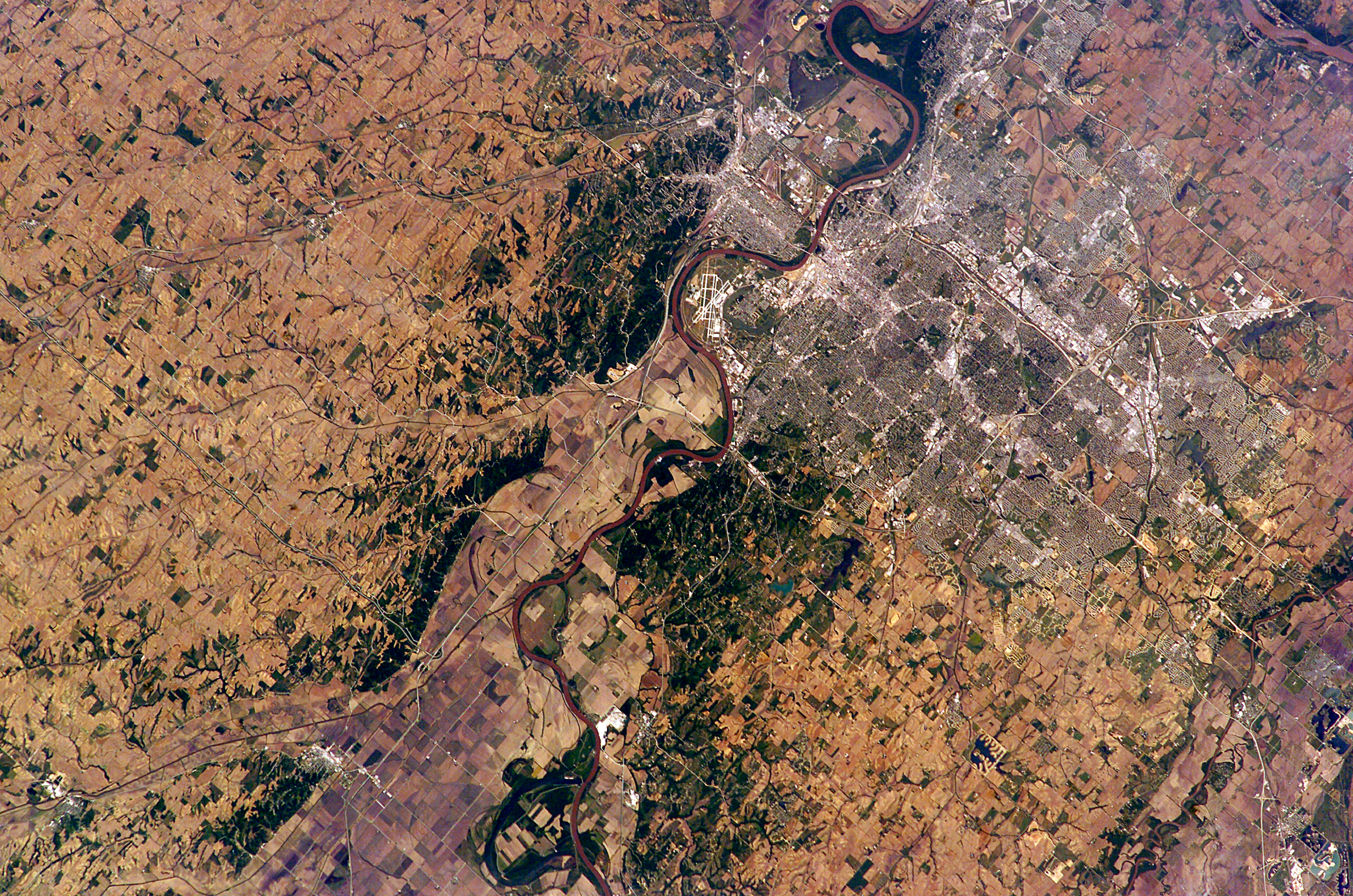 In this near-vertical view of Omaha—with a population estimated at more than three quarters of a million residents—the city is situated on high ground to the west of the Missouri River while Eppley Airfield and the town of Council Bluffs are located on the floodplain.